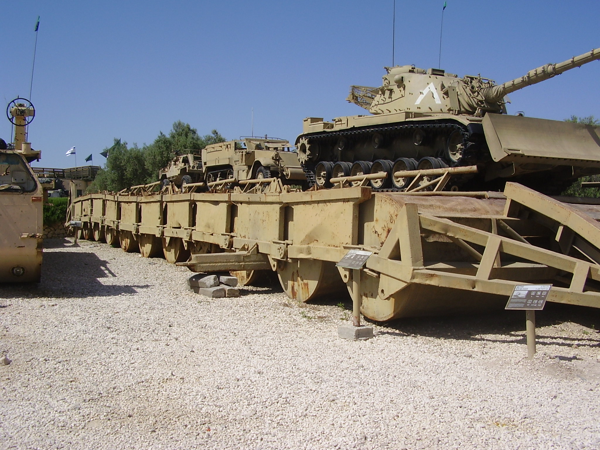 Cylinders Bridge in Armored Corps Museum, Latrun, Israel